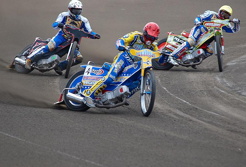 Tomasz Gollob (red helmet) on the lead. In the background Leigh Adams (yellow helmet) and Adam Shields (white helmet). Match Stal - Unia L.